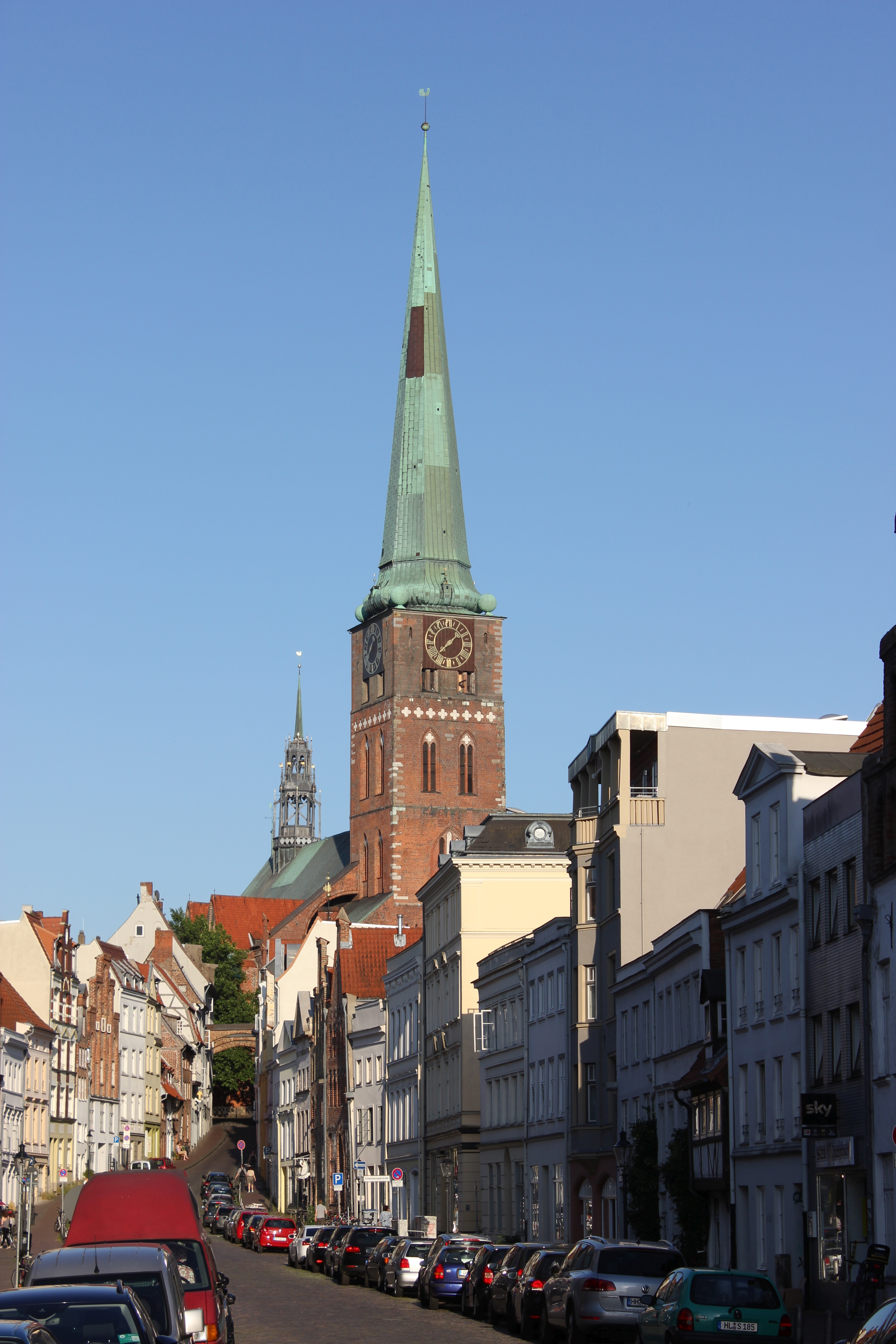 Lübeck - St. James church